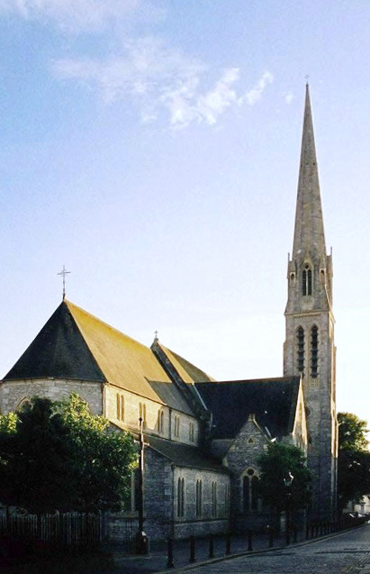 Roman Catholic cathedral of SS Mary and Boniface, Plymouth, Devon, seen from the northeast